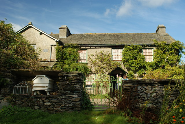 Hill Top, Near Sawrey